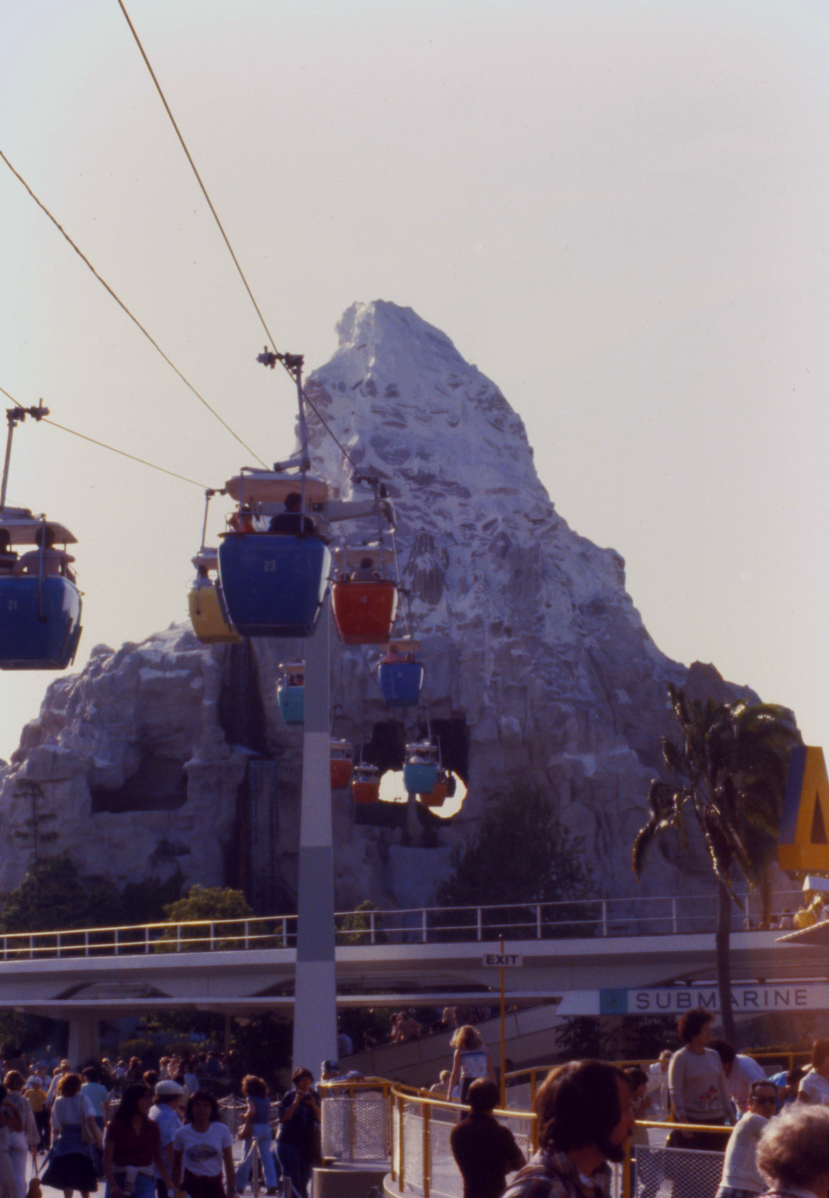 Scan of a Ektachrome transparency taken with an Olympus OM-1. Adjusted with Picasa. (1979-04g-07.jpg)